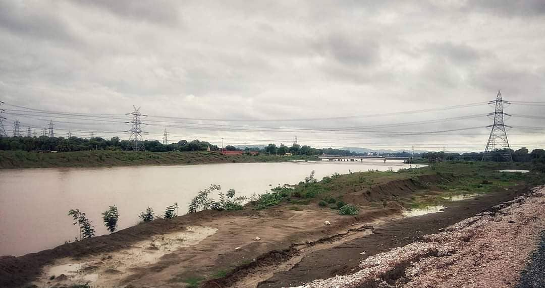 view of the Western channel of Panchane river just before the Bihar Sharif city